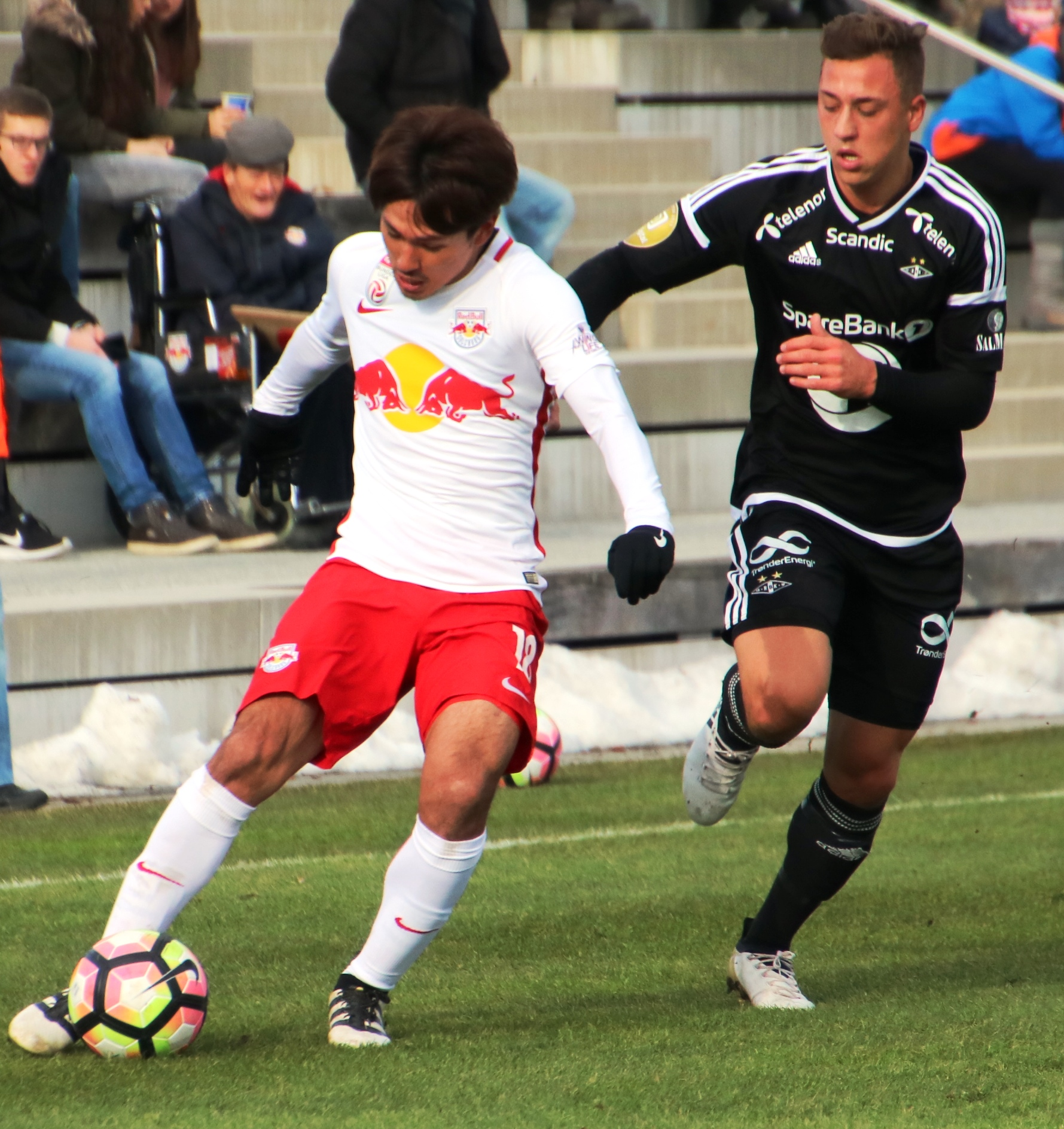 preseason match